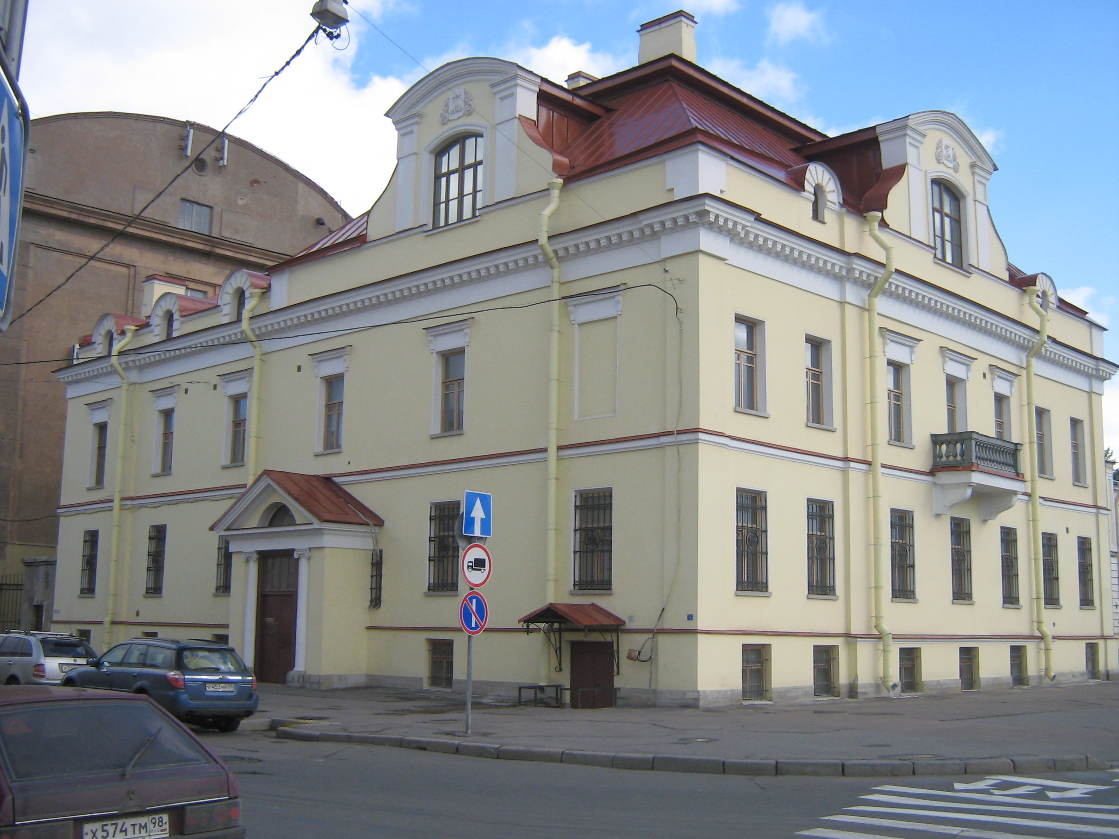 Saint Petersburg (Russia), Vasilievsky Island